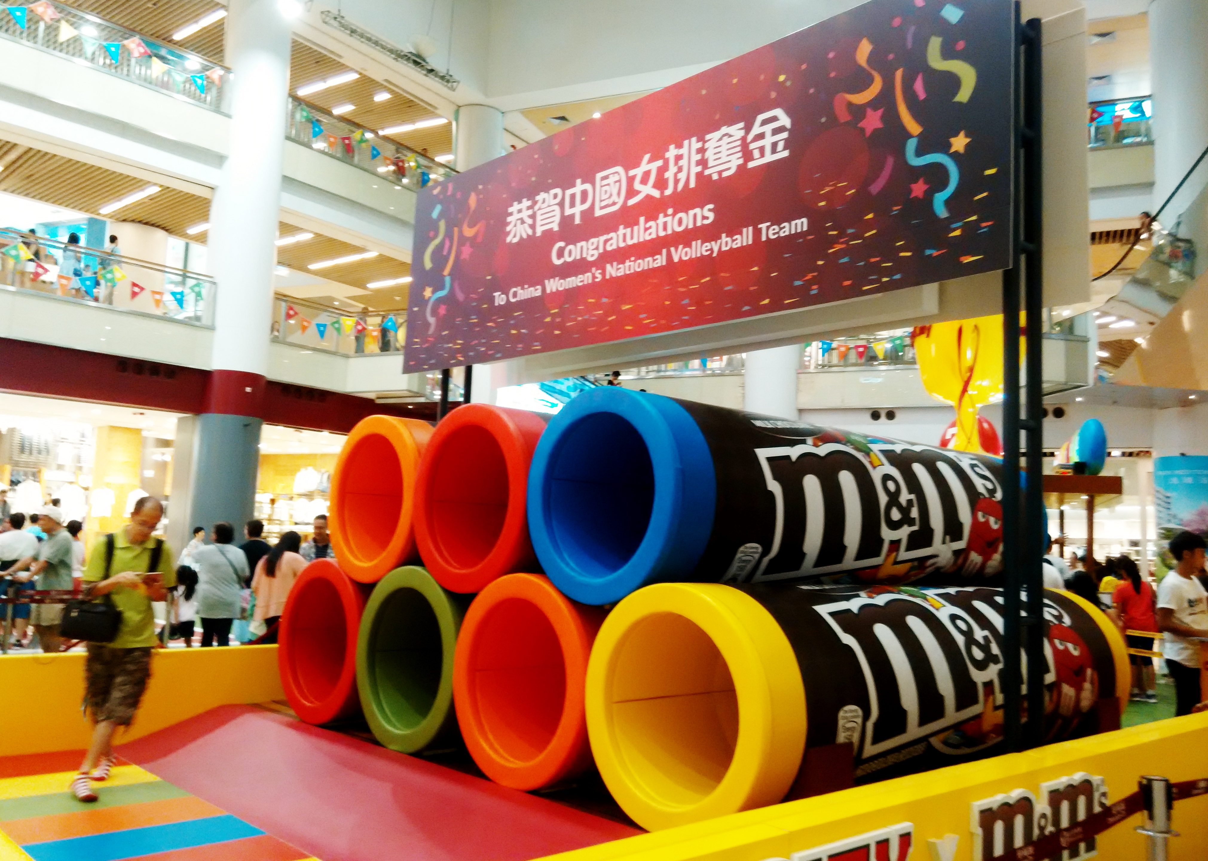 中文（香港）: HK Celebration of China Women's national volleyball team's victory in 2016 Olympics